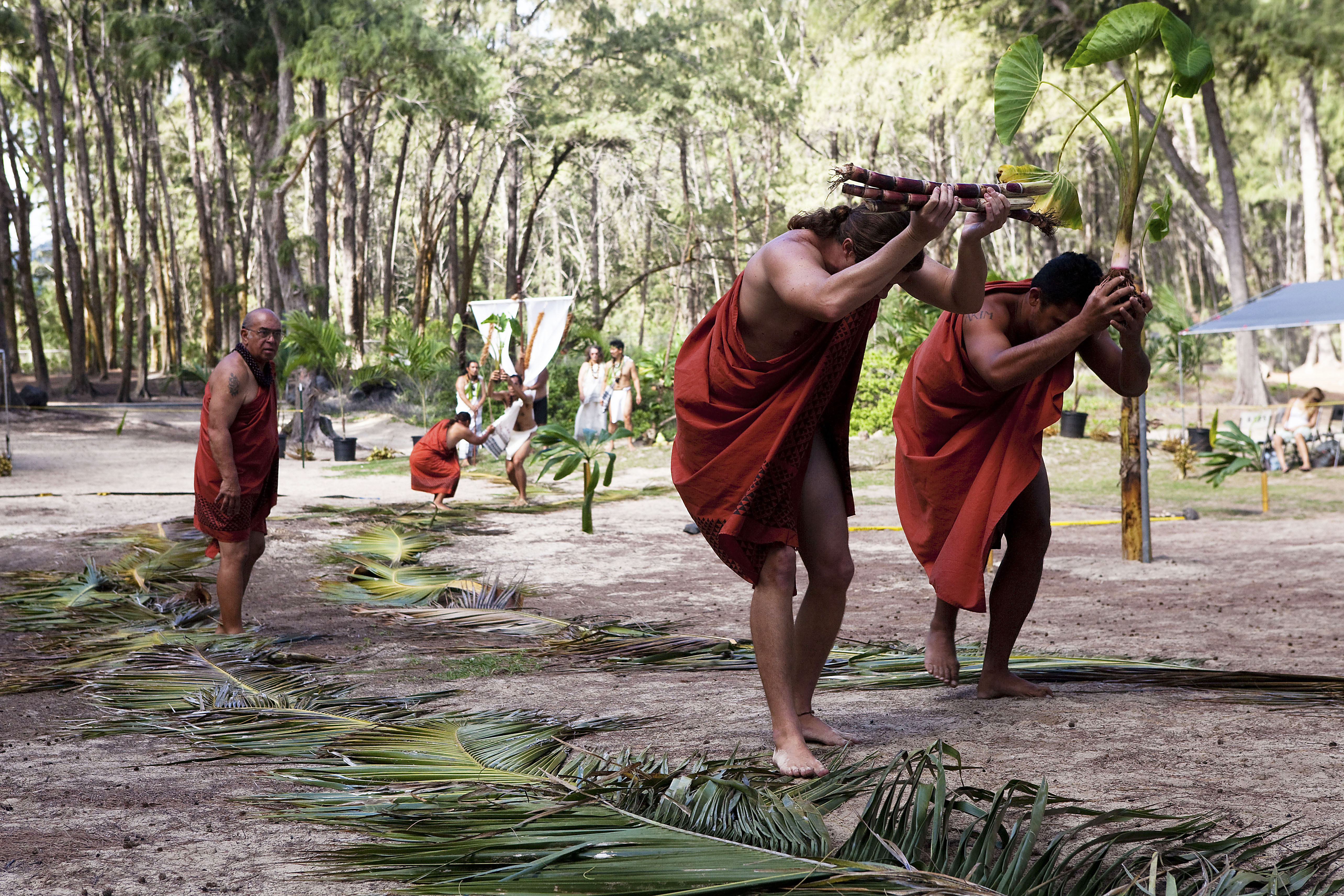 Members of a ceremonial procession present gifts to the Hawaiian god Lono during the Hoʻokupu protocol presentation of a Makahiki festival at Bellows Air Force Station in Waimānalo, Hawaii, November 20, 2010. Lasting from October until February, the Makahiki season honors Lono, the guardian of peace and health, as he arrives for the transition from Kū, a time of war, politics and construction, to Lono, a time of relaxation and celebration of life.